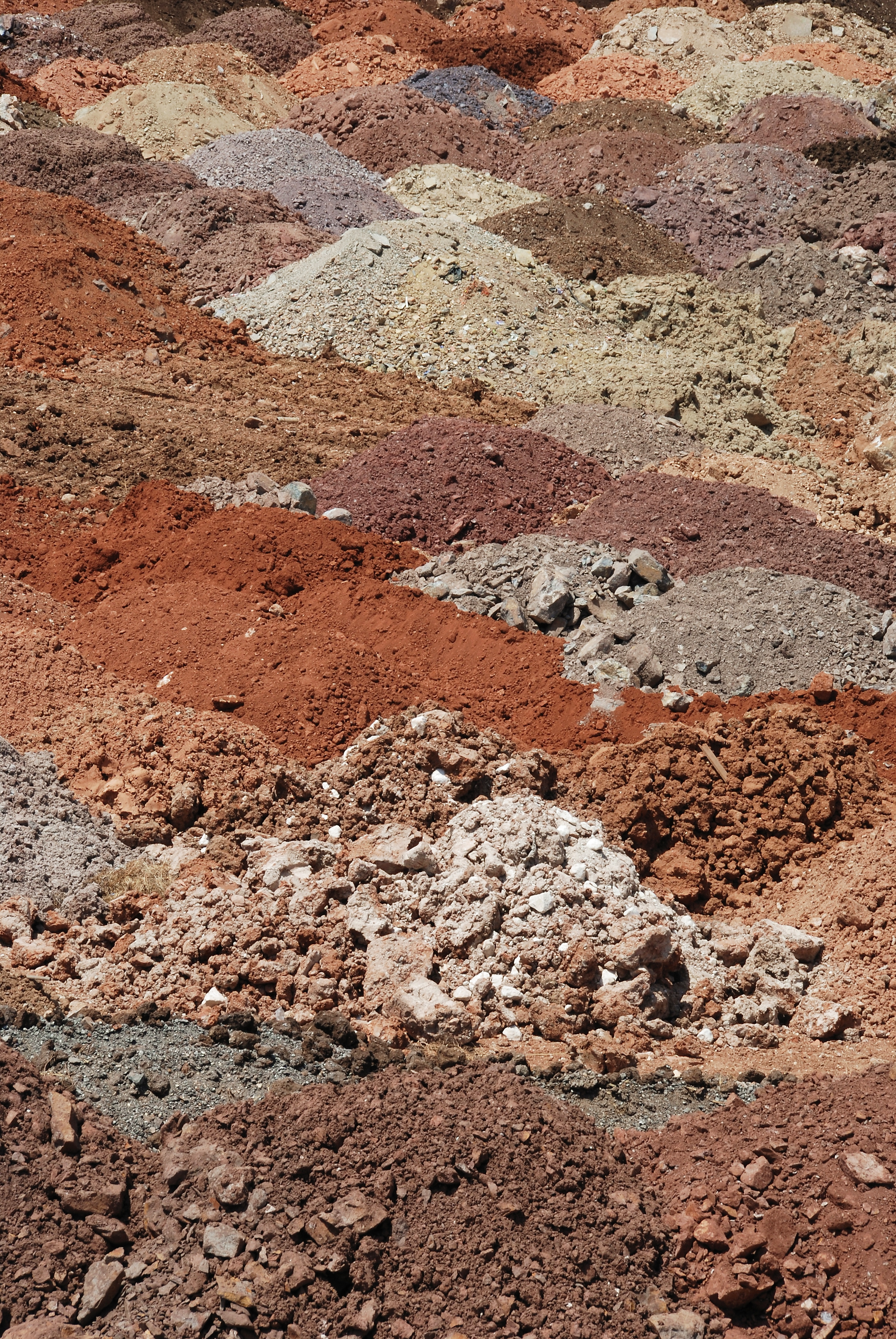 Piles of soil with various compositions used for levelling the terrain